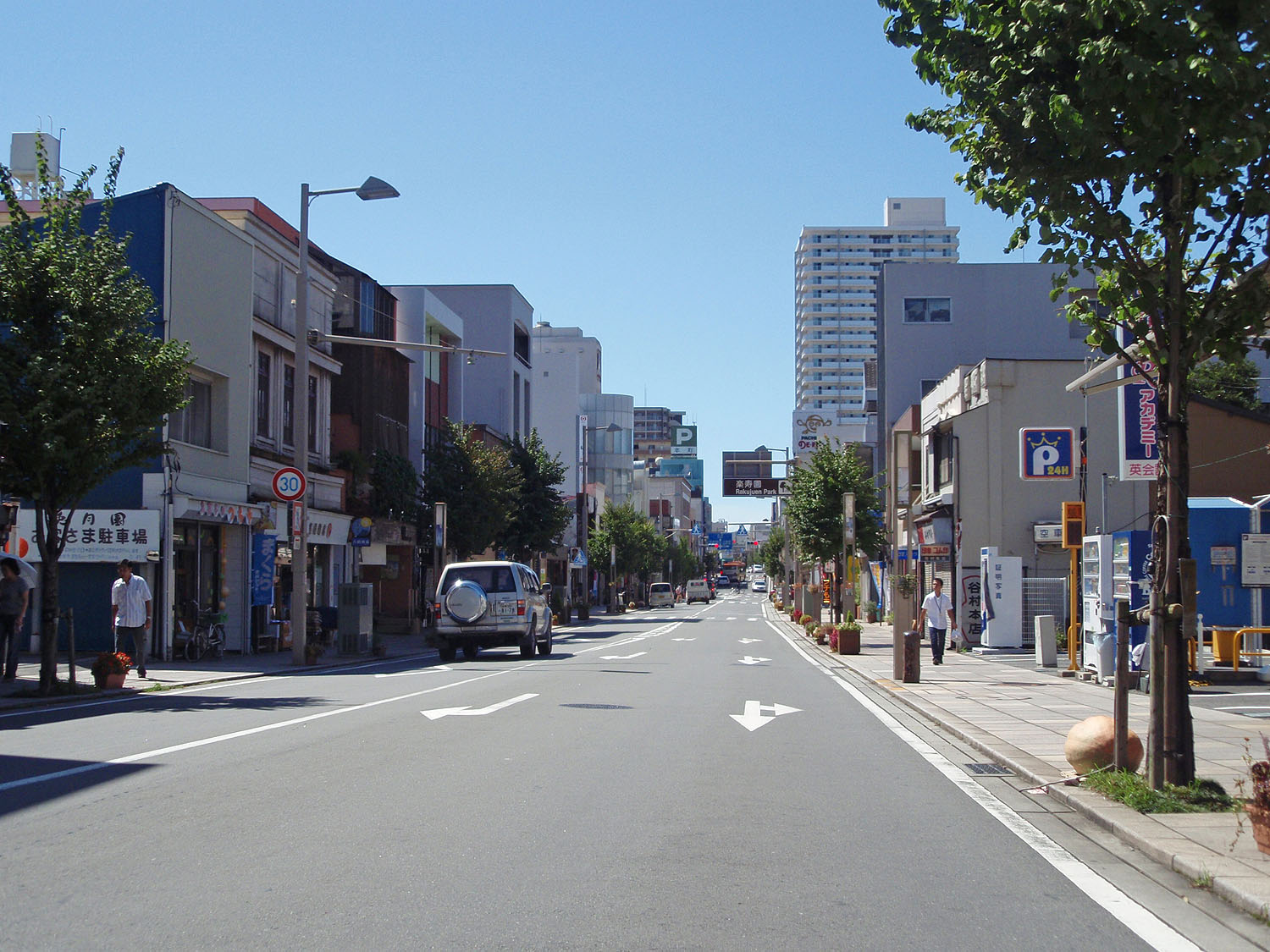 Downtown of Mishima and Shizuoka Prefectural Road Route 22 in Shizuoka Prefecture, Japan.